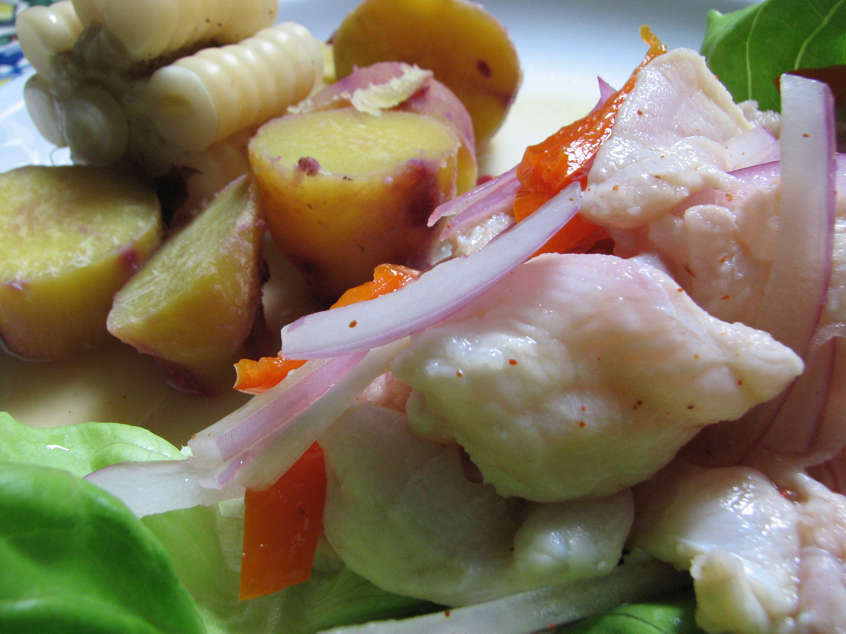 Peruvian Cebiche (ceviche) cooked by the author